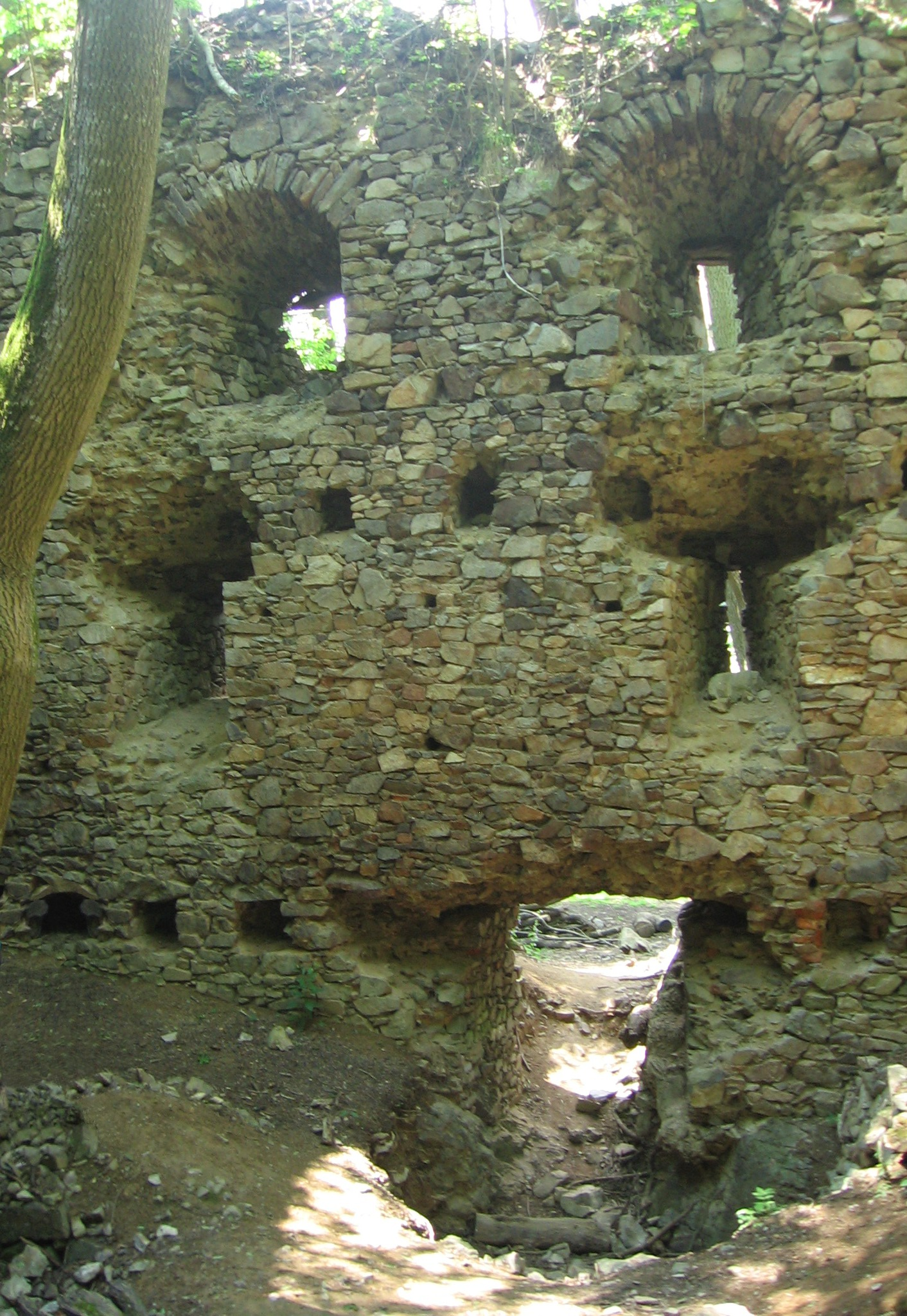 Castle (ruin) Nový Herštejn - inside view